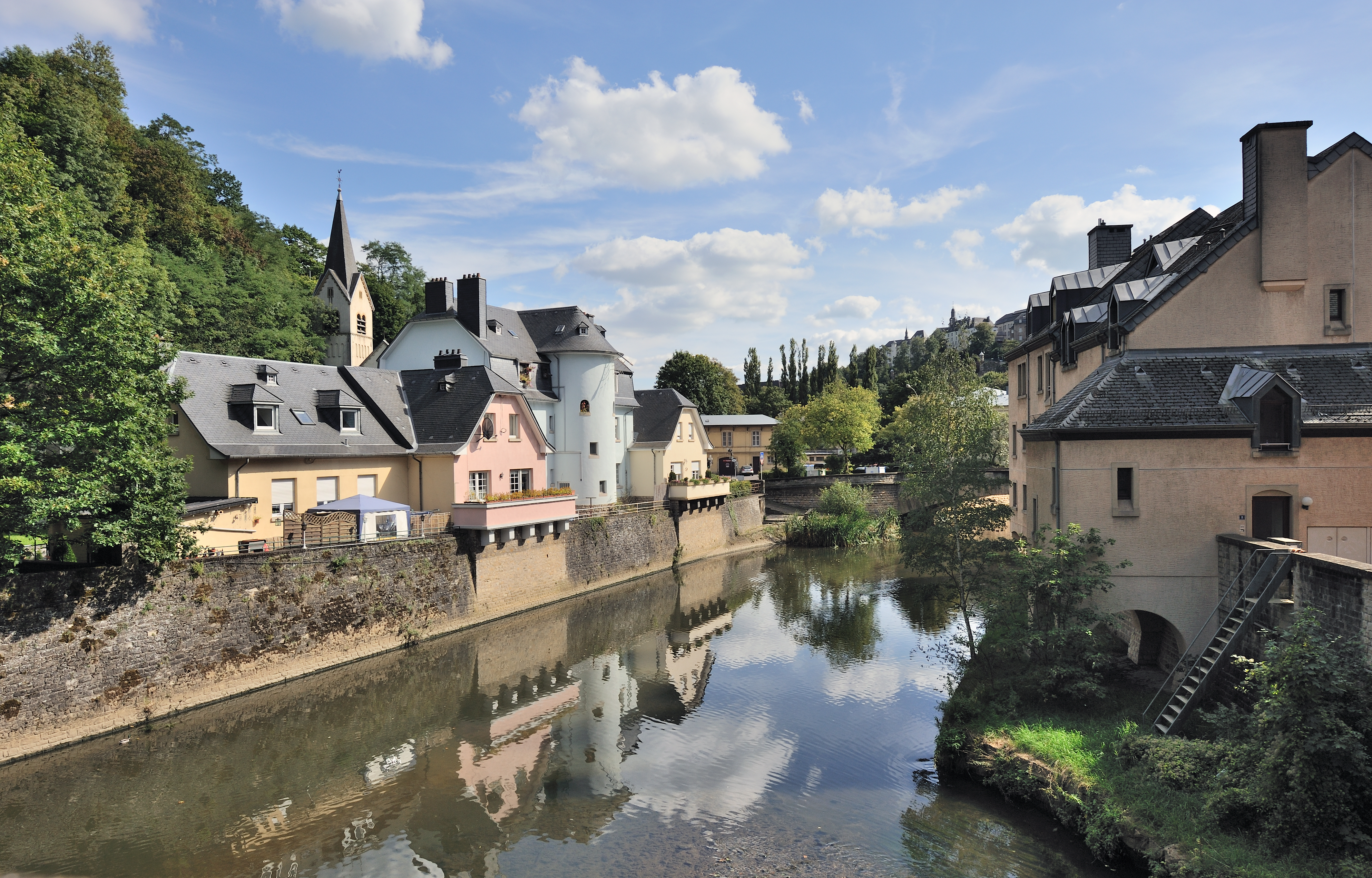 The river Alzette in Luxembourg Pfaffenthal, as seen from the bridge called Béinchen.